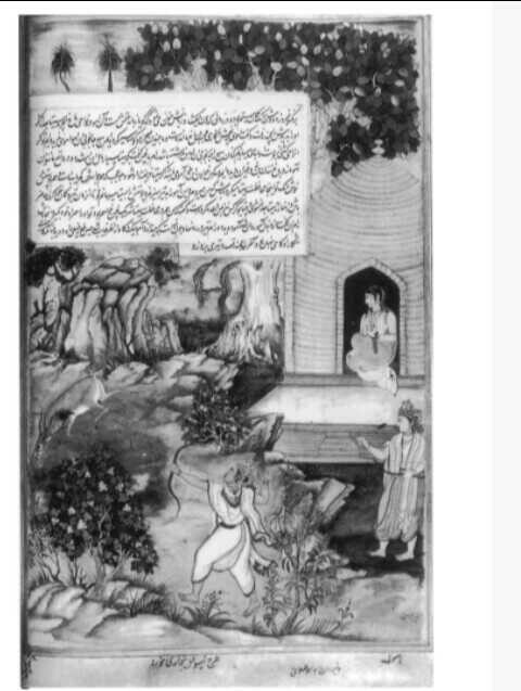 Ramayana story